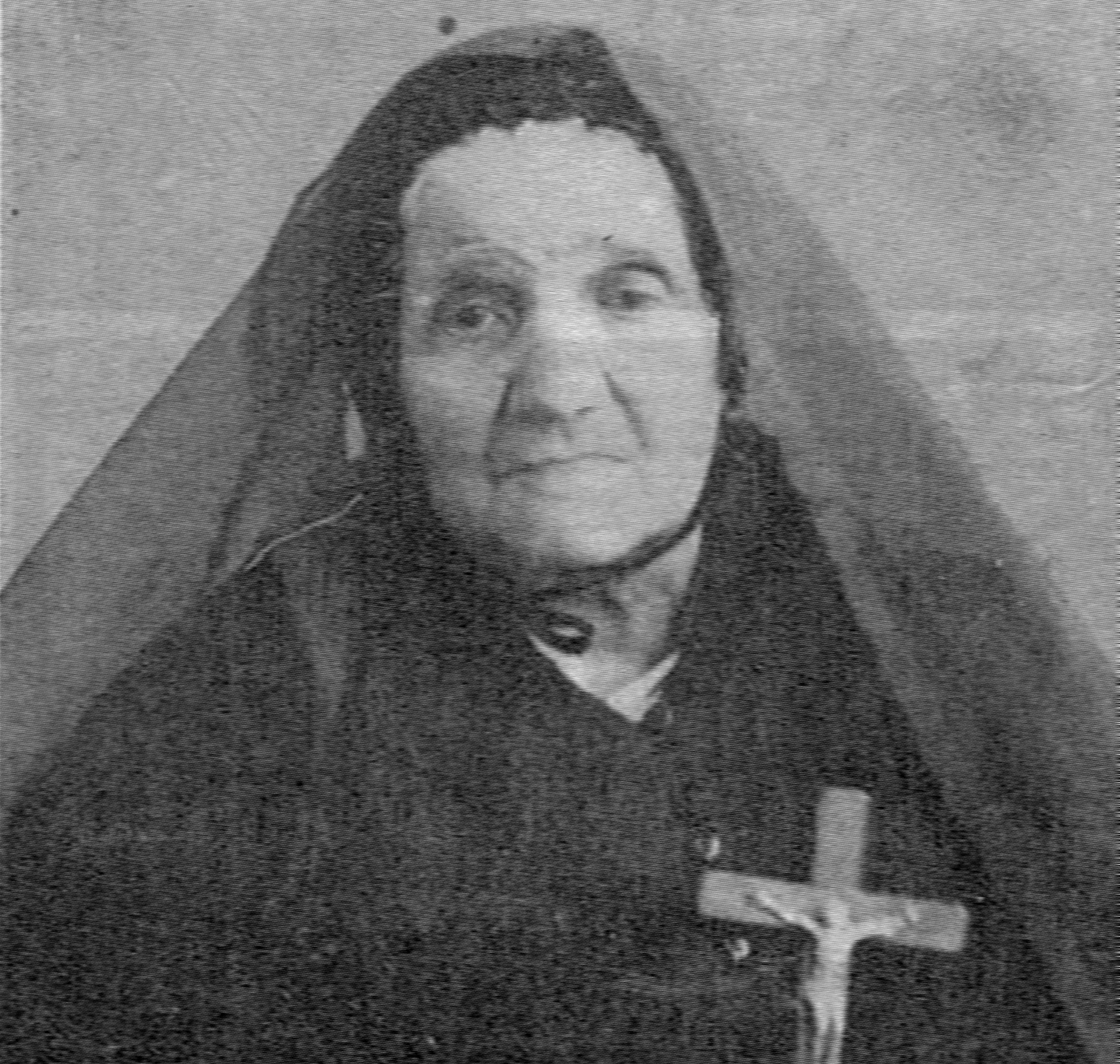 Blessed Sister Anna Maria Adorni (Fivizzano, June 19, 1805 - Parma, February 7, 1893)